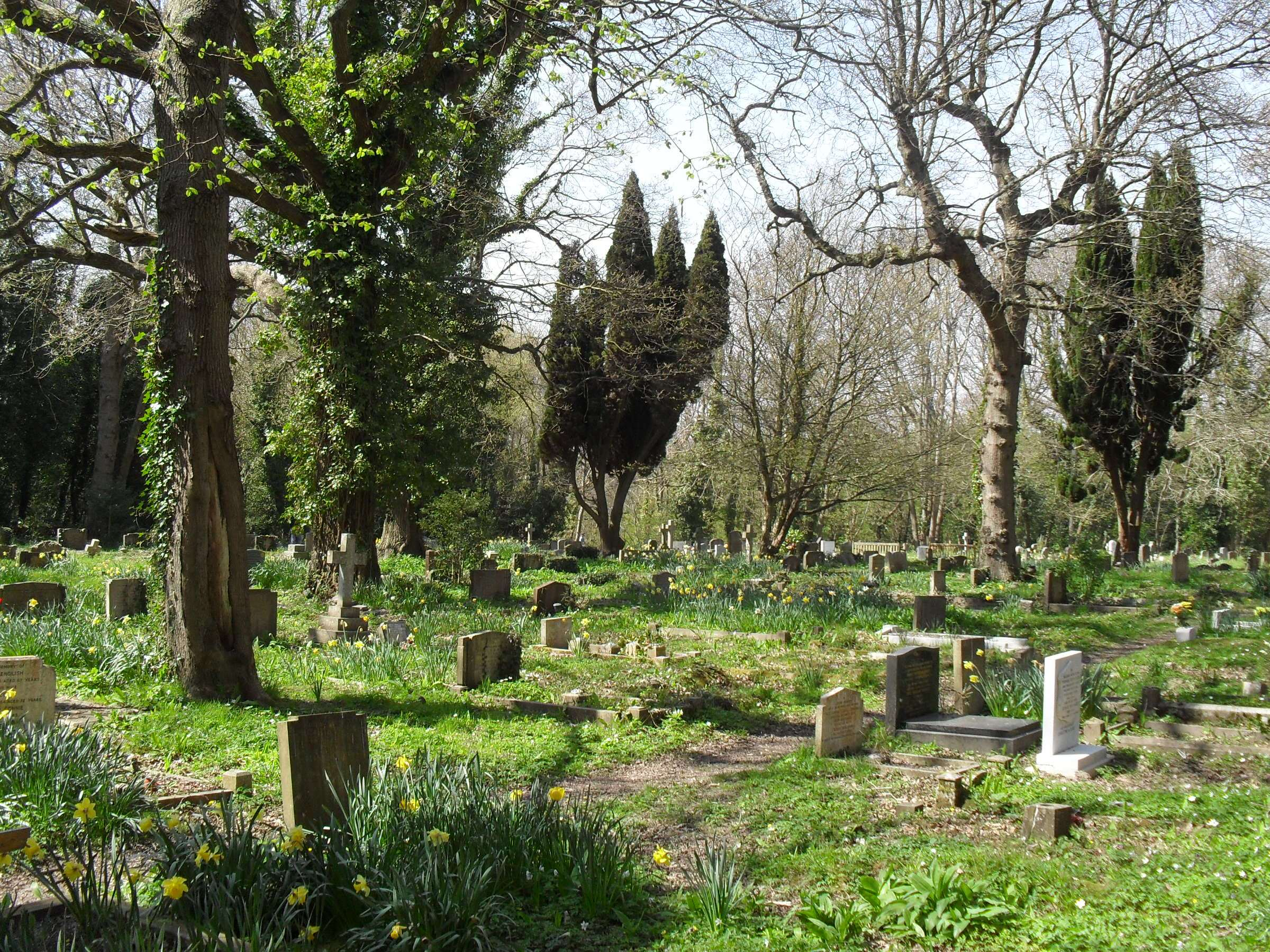 Churchyard at St Leonard's Church (Church-in-the-Wood), Church in the Wood Lane, Hollington, Hastings, East Sussex, England. This is a restored 13th-century Anglican church in the middle of a wood and nature reserve in the Hollington area of Hastings. Listed at Grade II by English Heritage (Heritage Gateway Code 293741)